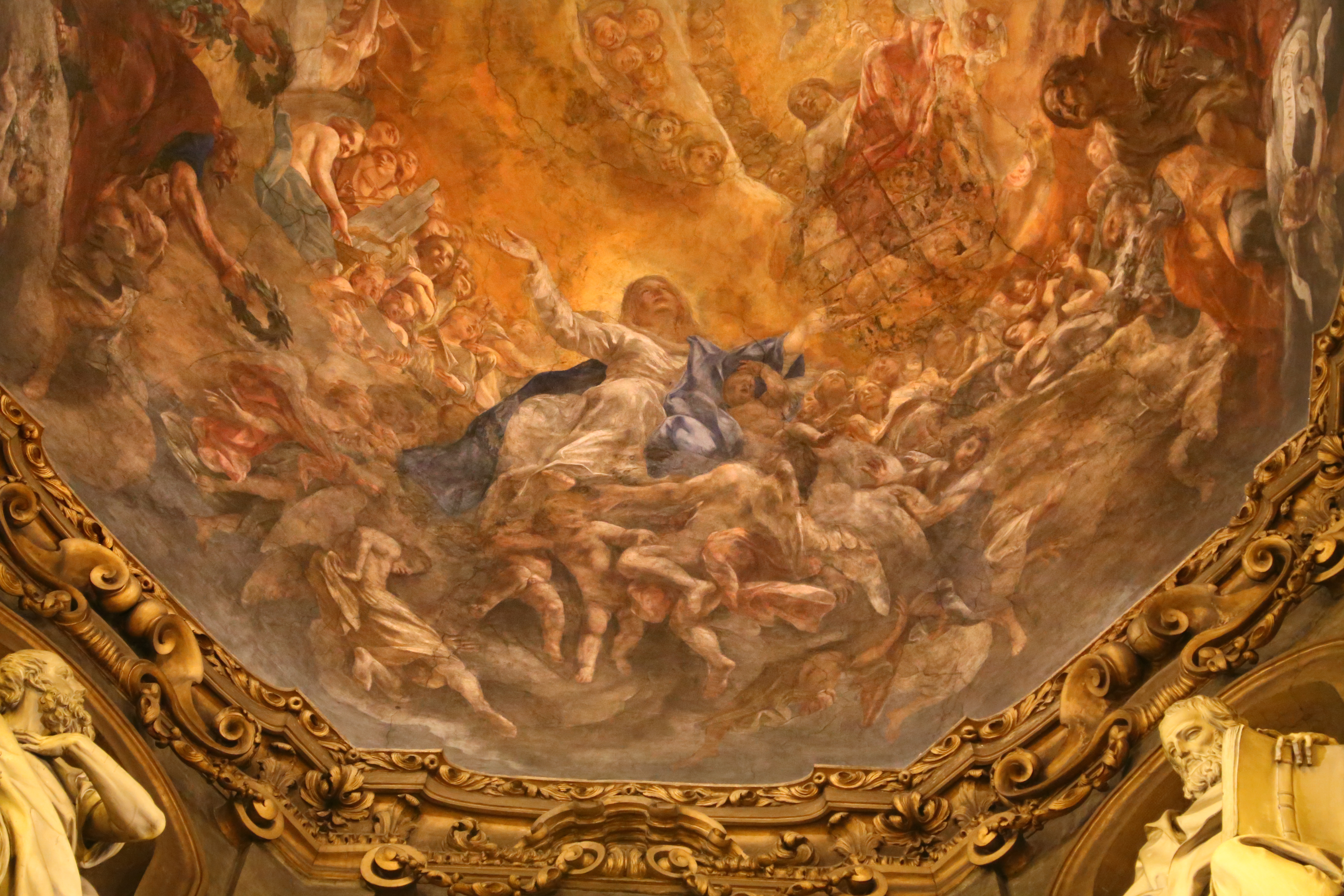 Assumption of the Virgin by Carlo Cignani